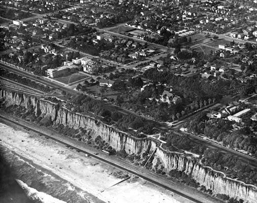 1922 aerial view of Santa Monica, California. Showing Palisades Park along clifftop.